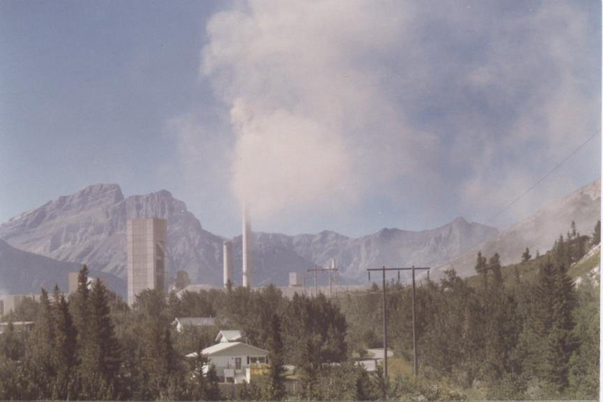 Exshaw townsight with plant to the west. photo G Larson